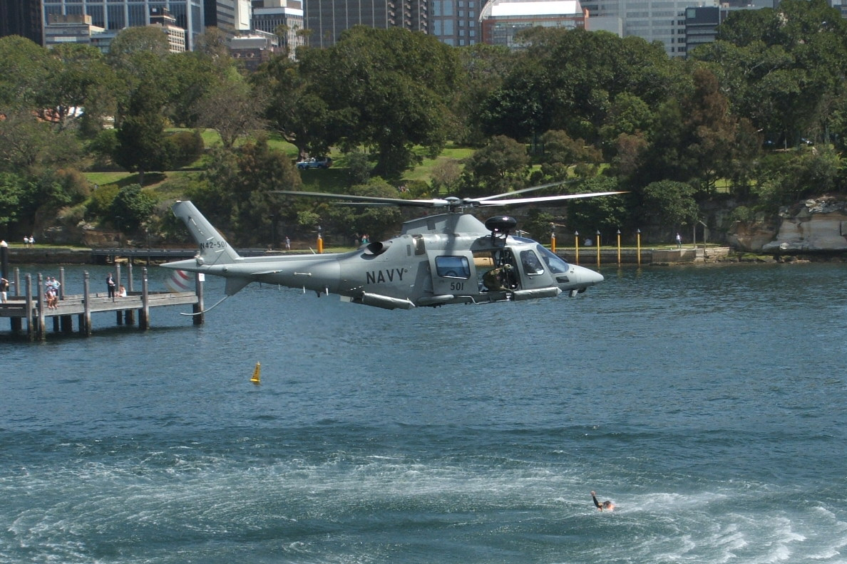 Photograph is of an AugustaWestland A109 helicopter of the Royal Australian Navy's 723 Squadron. The helicopter is about to 'rescue' a man in the water as part of a demonstration for the September 2008 Navy Open Day at Fleet Base East, Sydney.